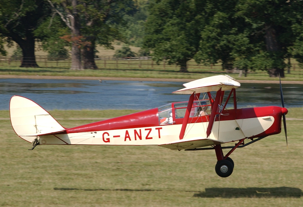 G-ANZT Thruxton Jackeroo at Woburn Abbey on August 16, 2003.